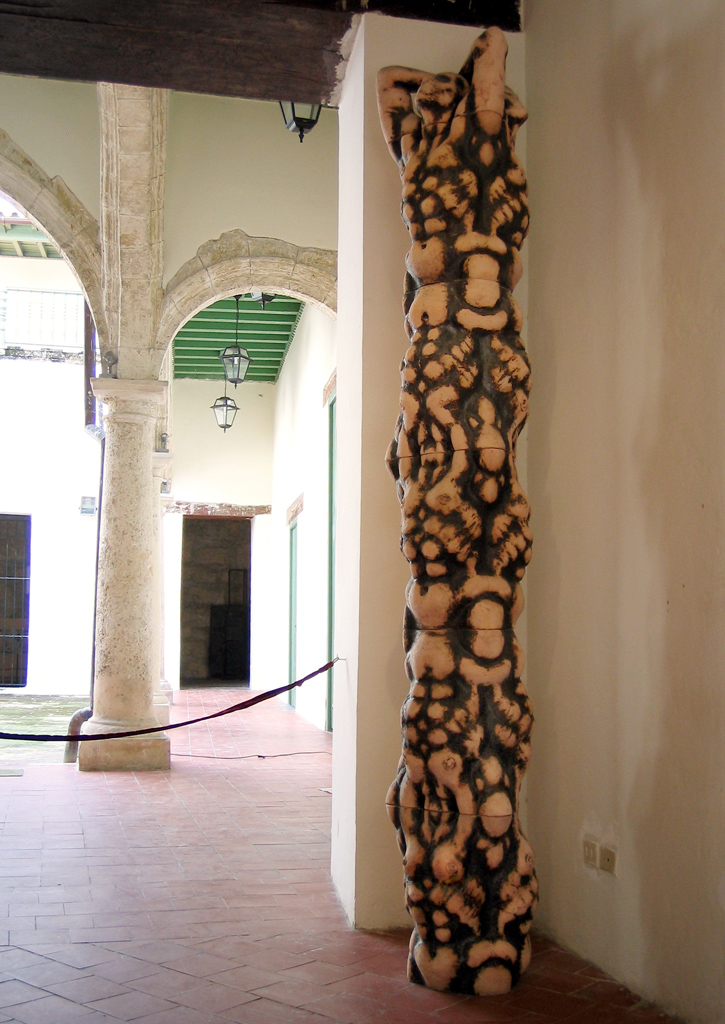 Atlantes: Ceramic sculpture made by the Cuban contemporary artist Carlos Enrique Prado, Collection of the National Museum of the Cuban Contemporary Ceramic ▪ Title: Atlases ▪ Author: Carlos Enrique Prado ▪ Technique: Sculpture terracotta. Red clay, engobes and oxides ▪ Dimensions: 345 x 55 x 55 cm ▪ Dates: 2004 ▪ Collection National Museum of the Cuban Contemporary Ceramic, Havana, Cuba. ▪ Prize: Mention in the Biennial of Ceramic Amelia Peláez.